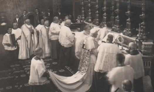 Saint Pius X wearing the papal falda